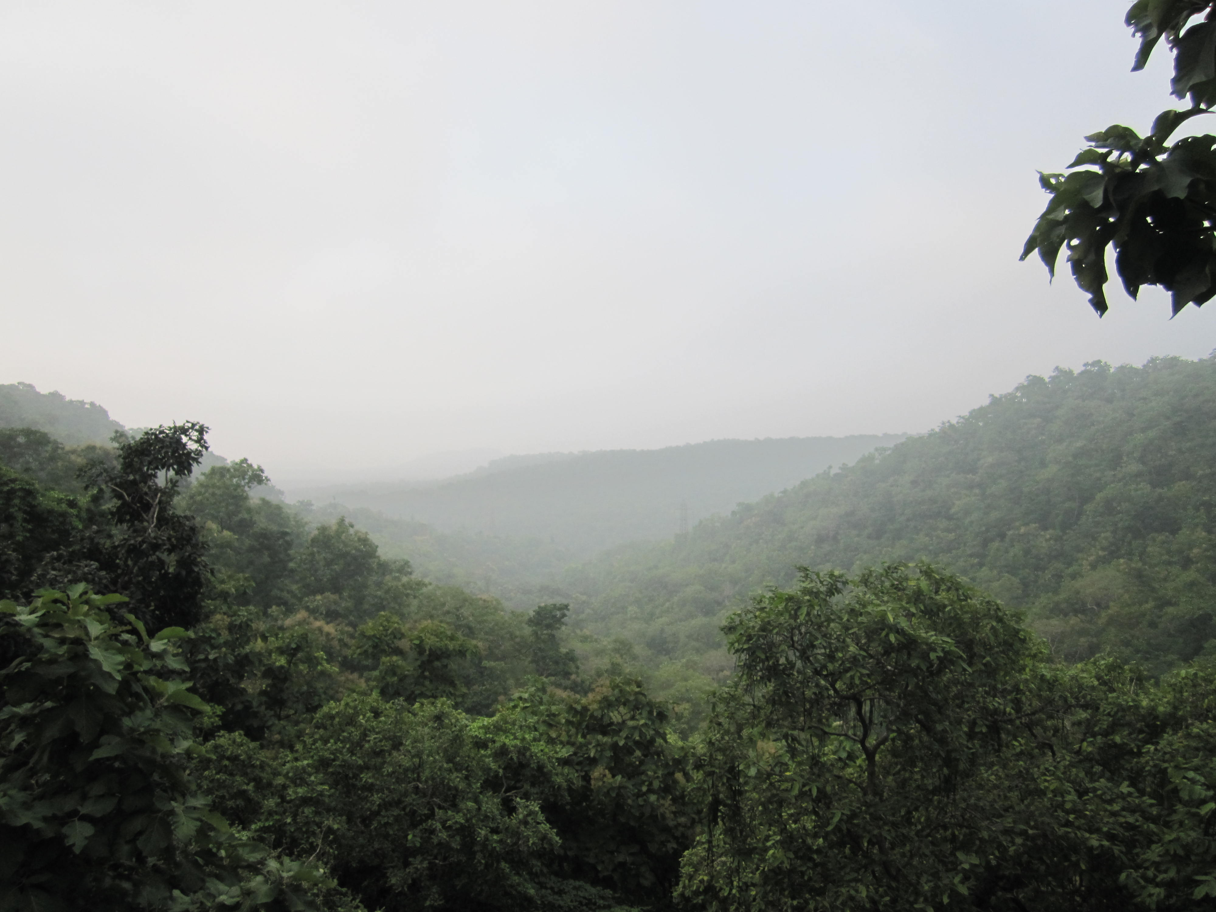 Cloudy Hills